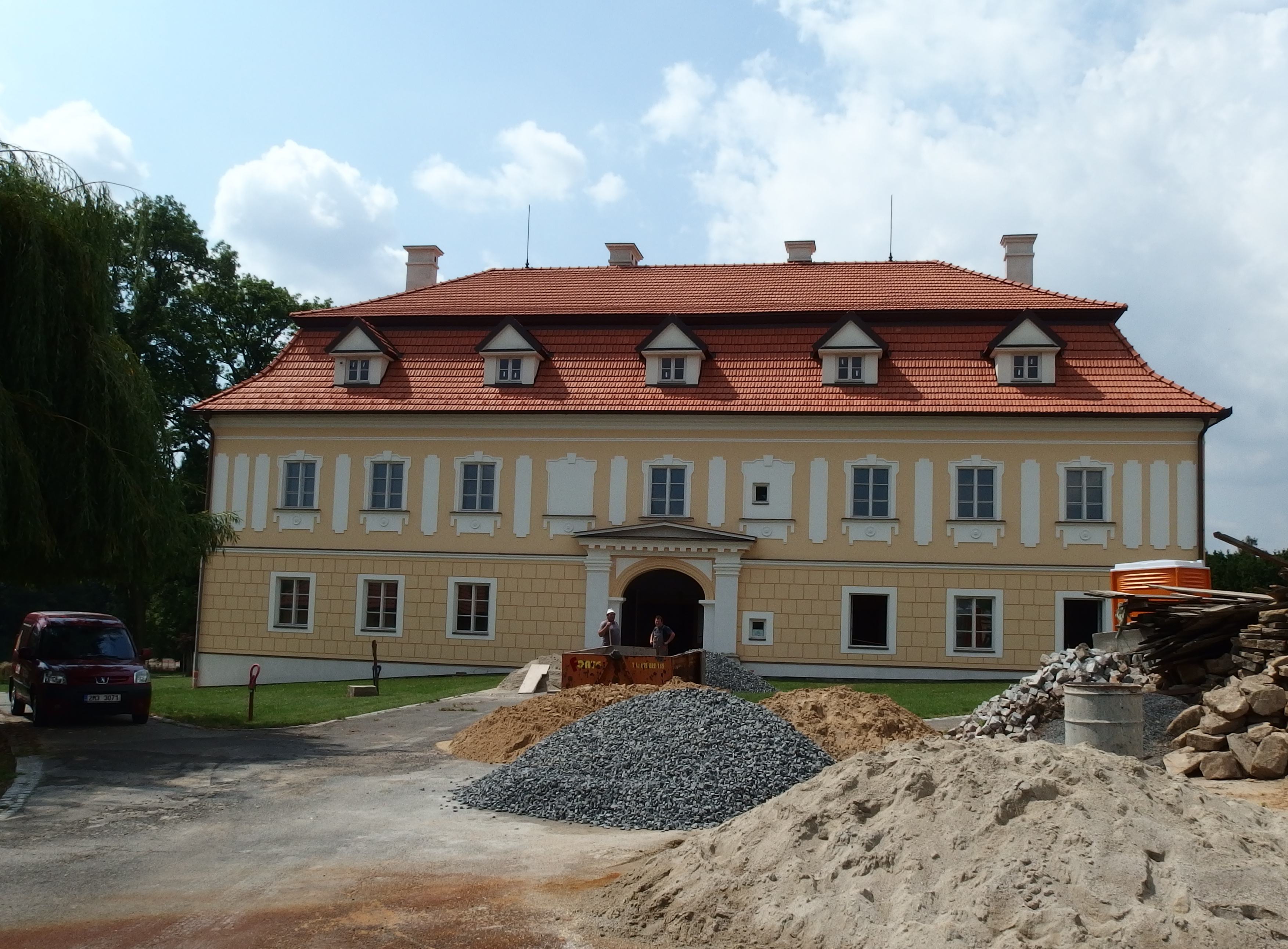 Všechovice, Přerov District, Czech Republic. Castle.